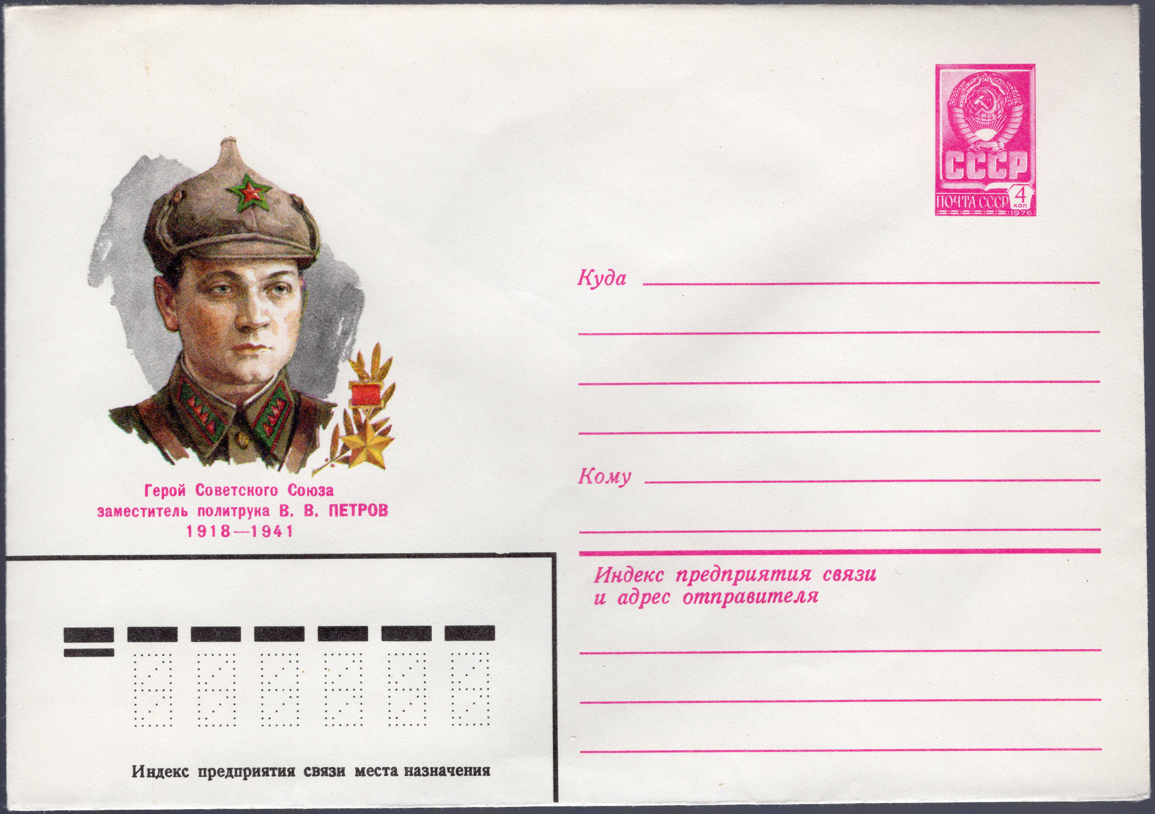 Hero of the Soviet Union deputy political commissar Vasily Vasilyevich Petrov (deputy politruk). 1918-1941. Series: Heroes of the Soviet Union. Artist Peter Bendel.